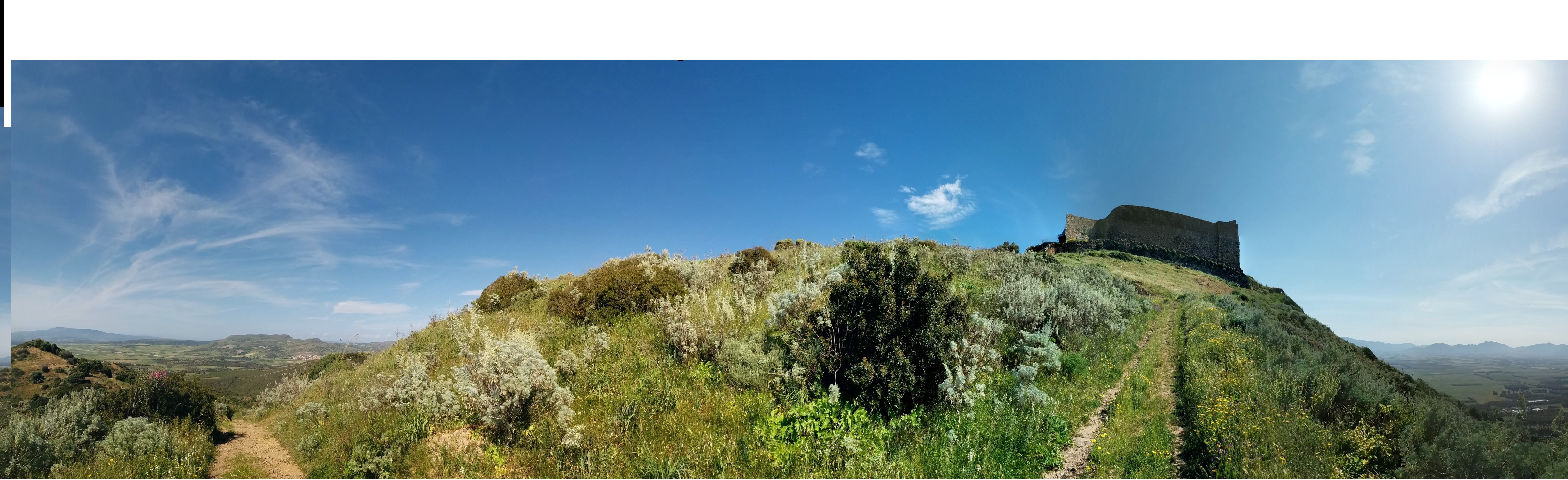 Panoramic view of Monreale's Castle